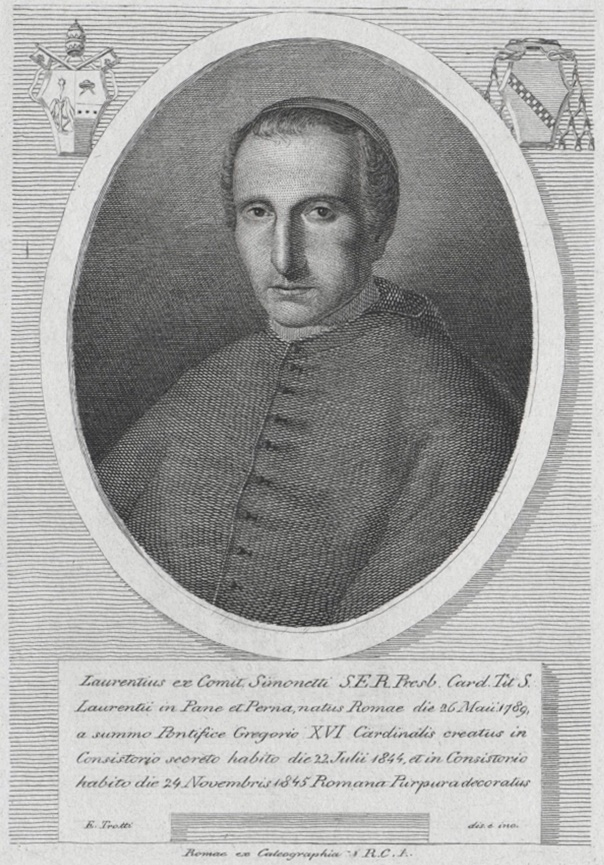 Kardinal Lorenzo Simonetti (1789-1855)